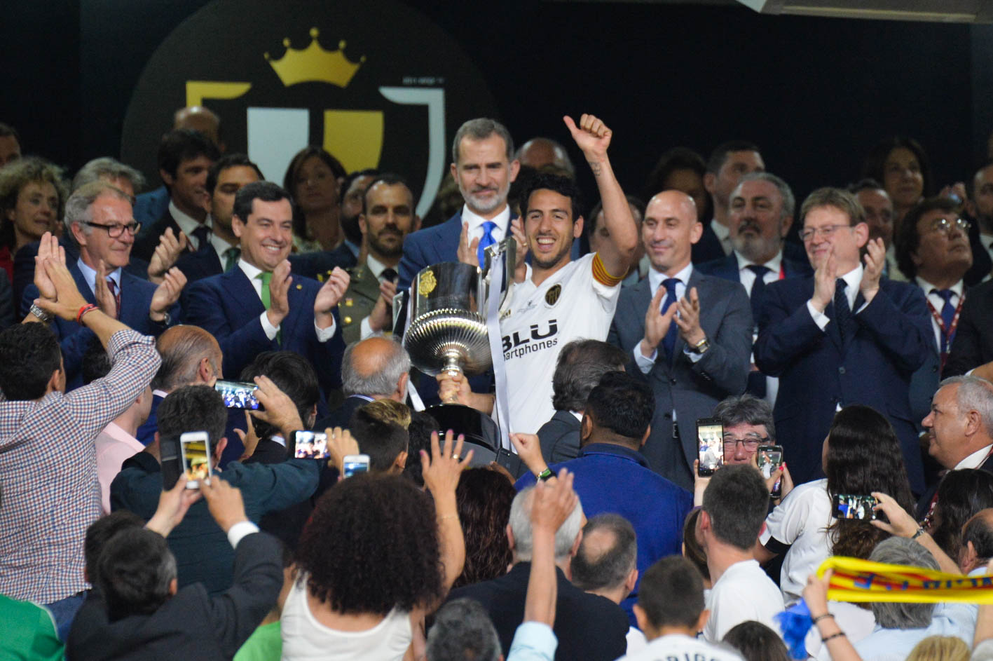 Daniel Parejo, captain of Valencia CF, receiving the trophy of the 2018-19 Copa del Rey